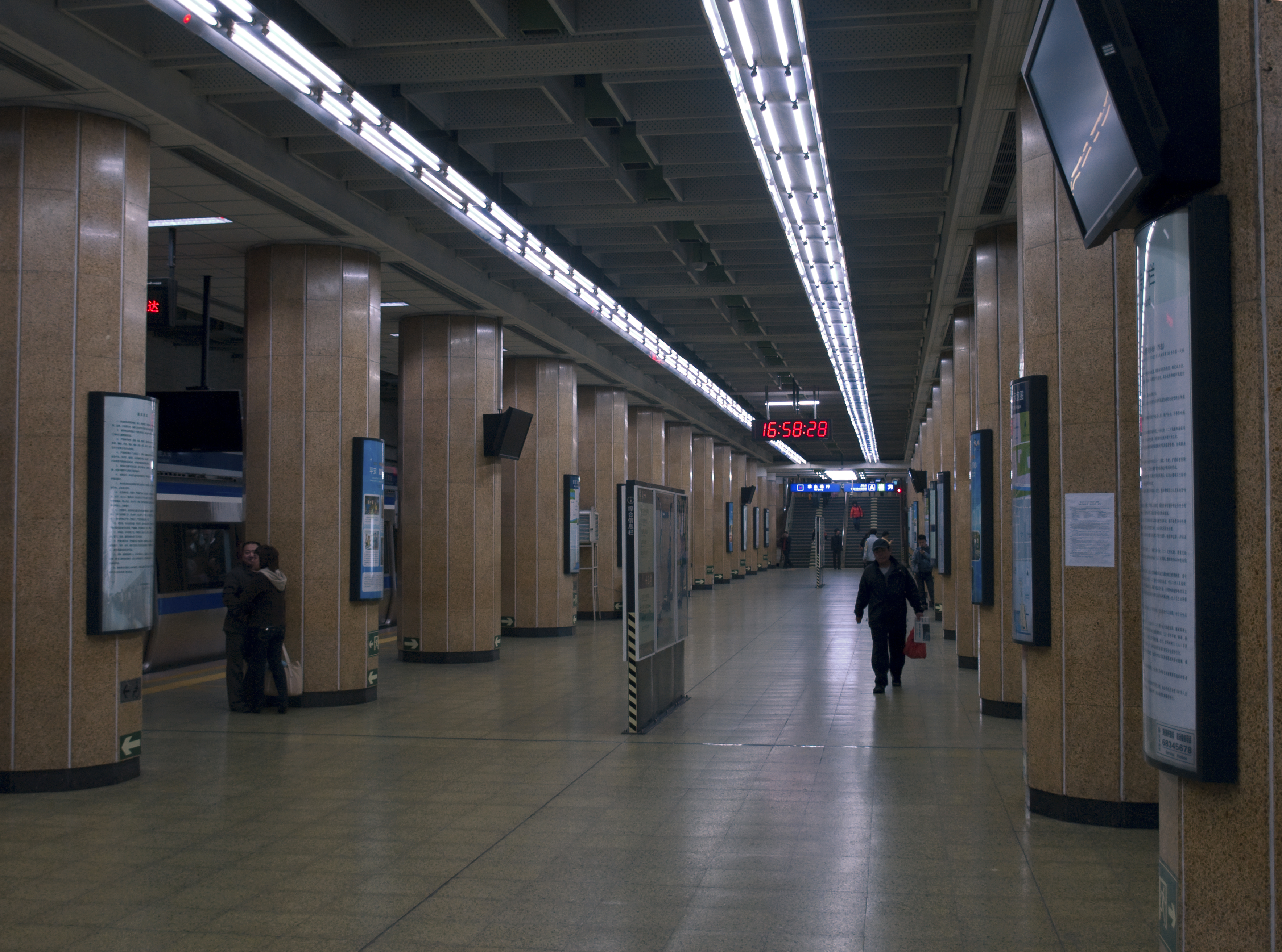 Andingmen station, Beijing subway